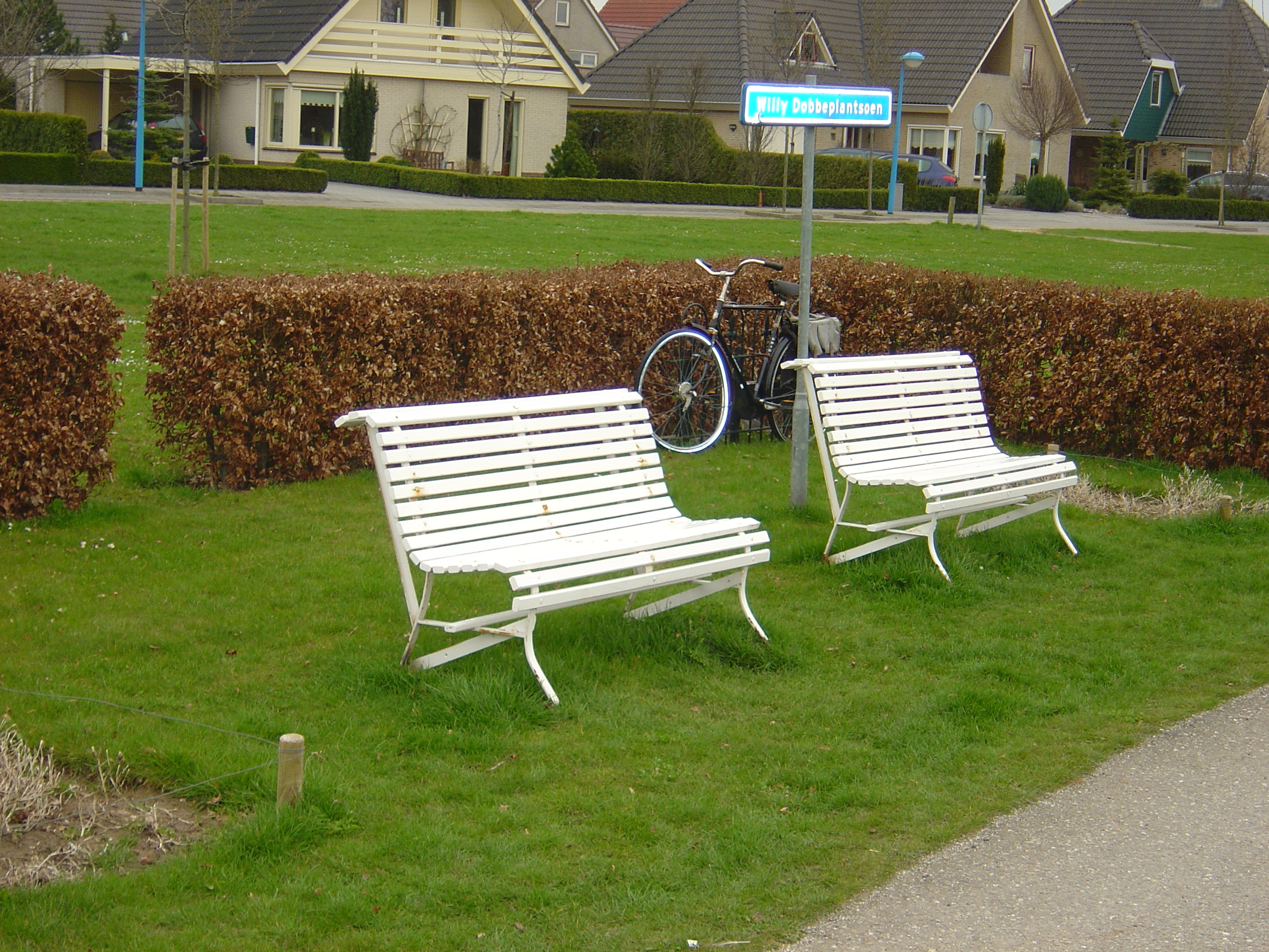 Willy Dobbeplantsoen, Olst, the Netherlands